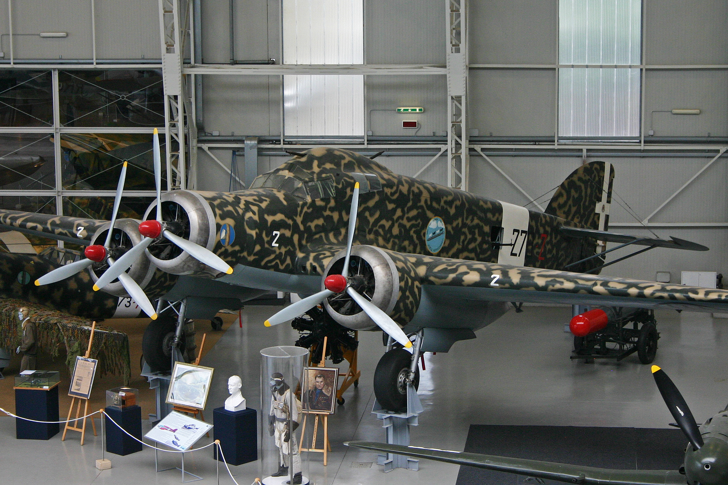 Displayed in Hangar BADONI. Previously L-112 and LR-AMB with the Lebanese AF. Believed to be MM45508 although displayed as MM24327. Photo taken from the balcony / entrance to Hangar SKEMA